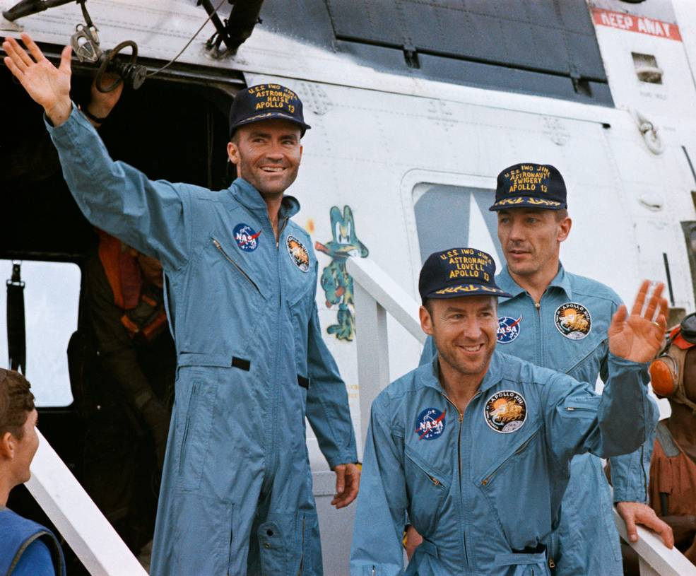 The Apollo 13 crew following recovery